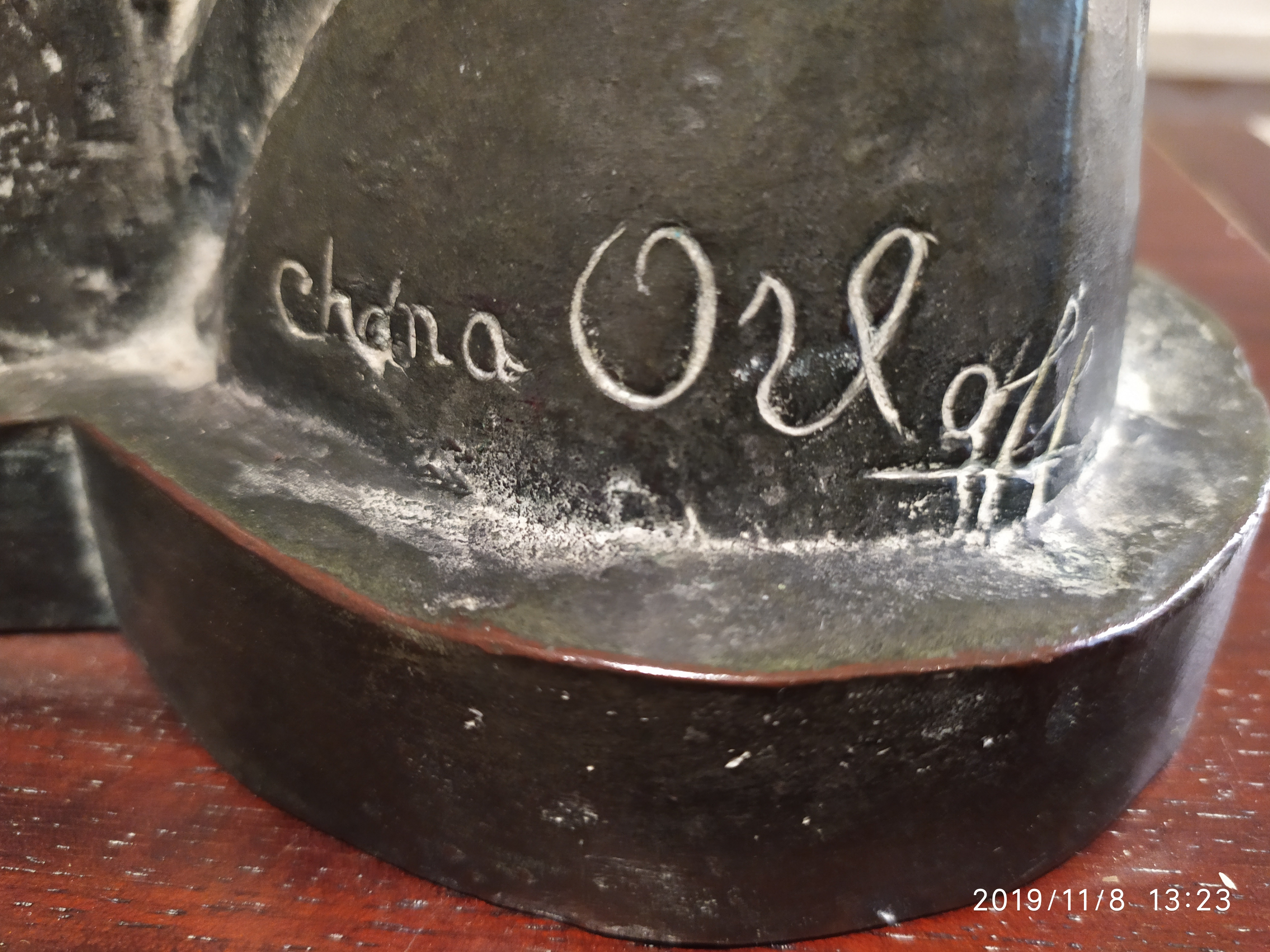 מוזיאון בית ראובן תל אביב